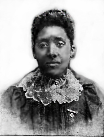 Emma Ann Reynolds, nursing student who inspired the creation of Provident Hospital in Chicago.